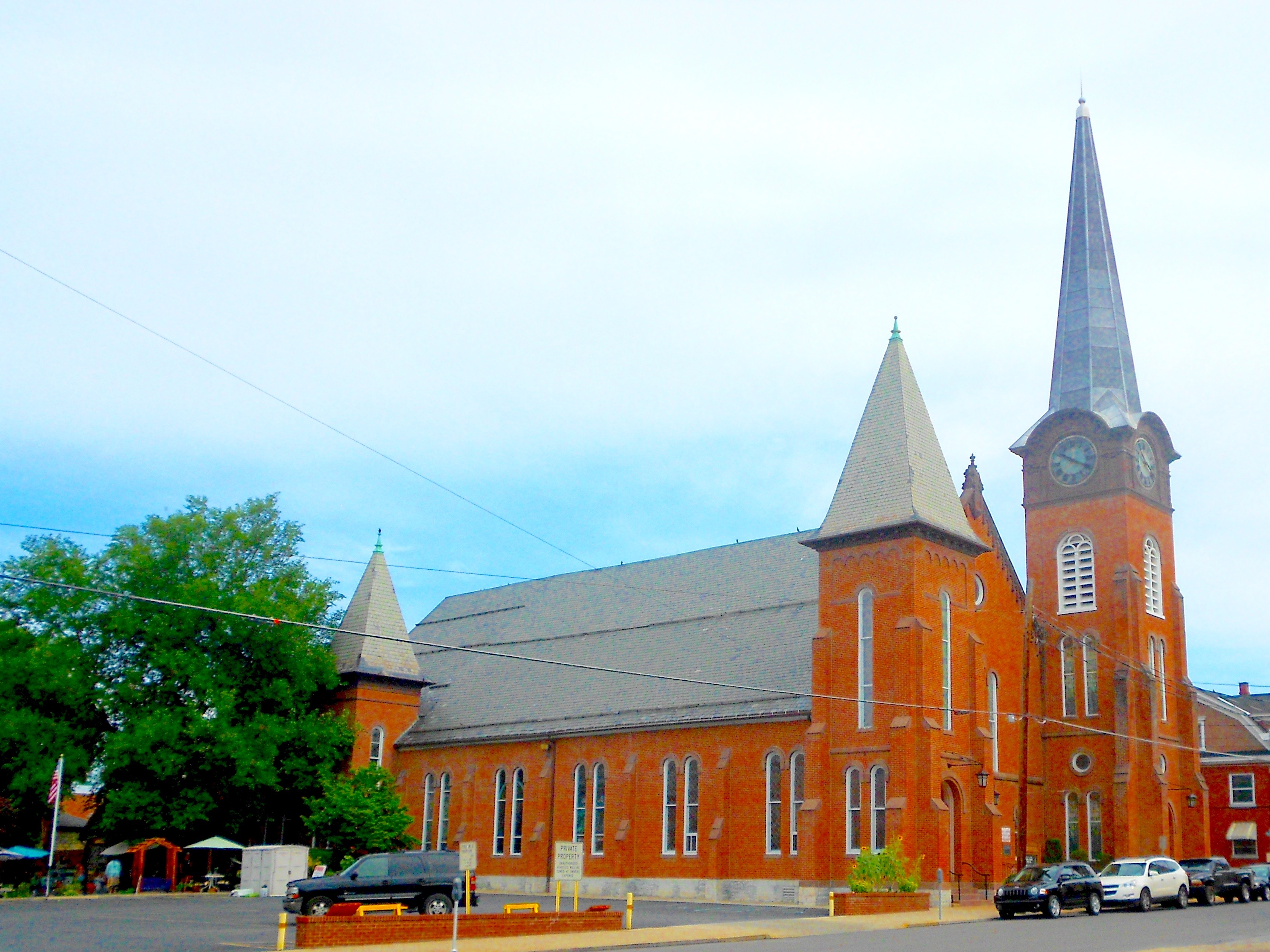 Presbyterian Church in Huntingdon, Pennsylvania. District is listed in the NRHP. For a version on an old postcard see File:Huntingdon PA Presby PHS272.jpg